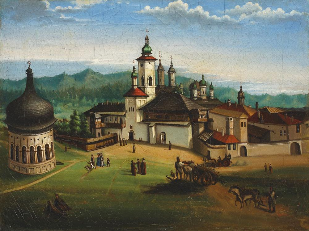 Panorama of the Neamţ Monastery